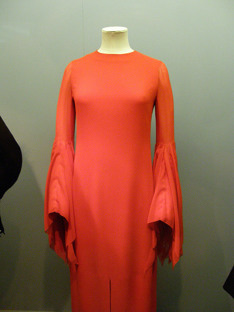 Pierre Cardin dress on display at a London museum in 2009